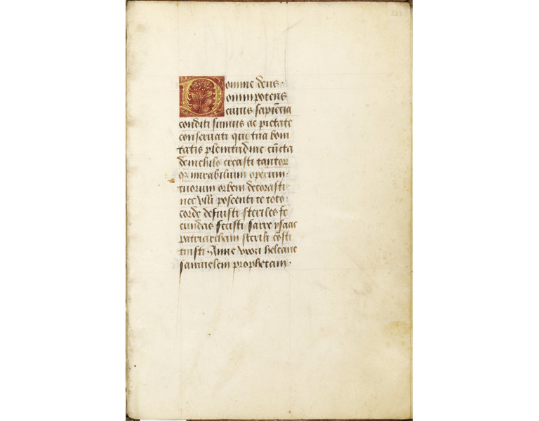 Folio 223r from the manuscript Hours of Margaret of Foix